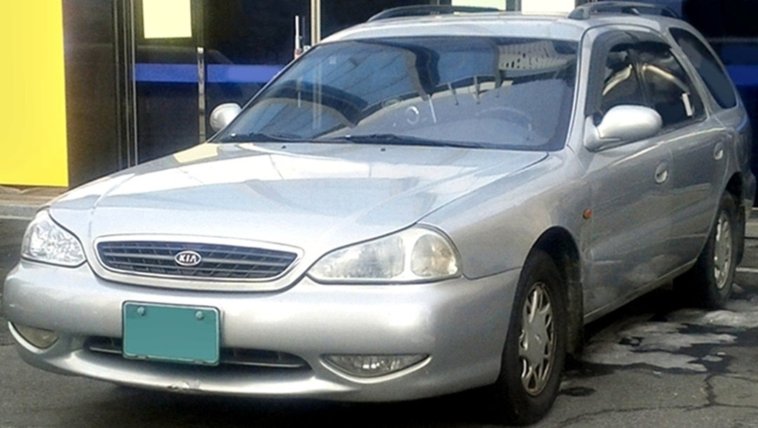 Kia Parktown